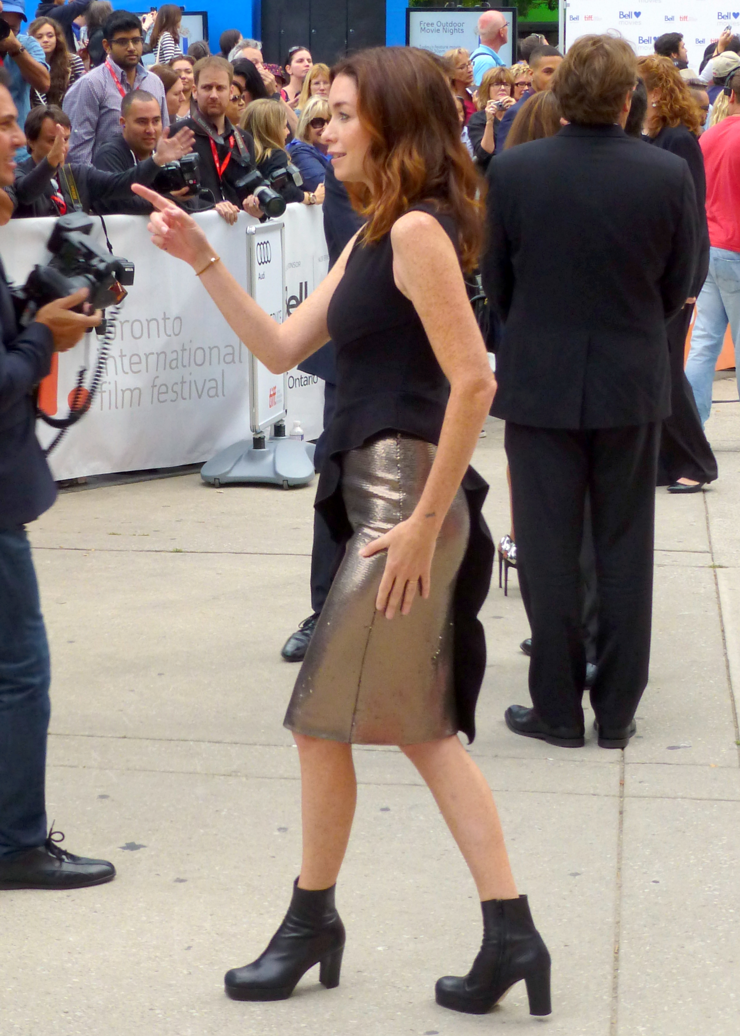 Julianne Nicholson at the premiere of August: Osage County, Toronto Film Festival 2013